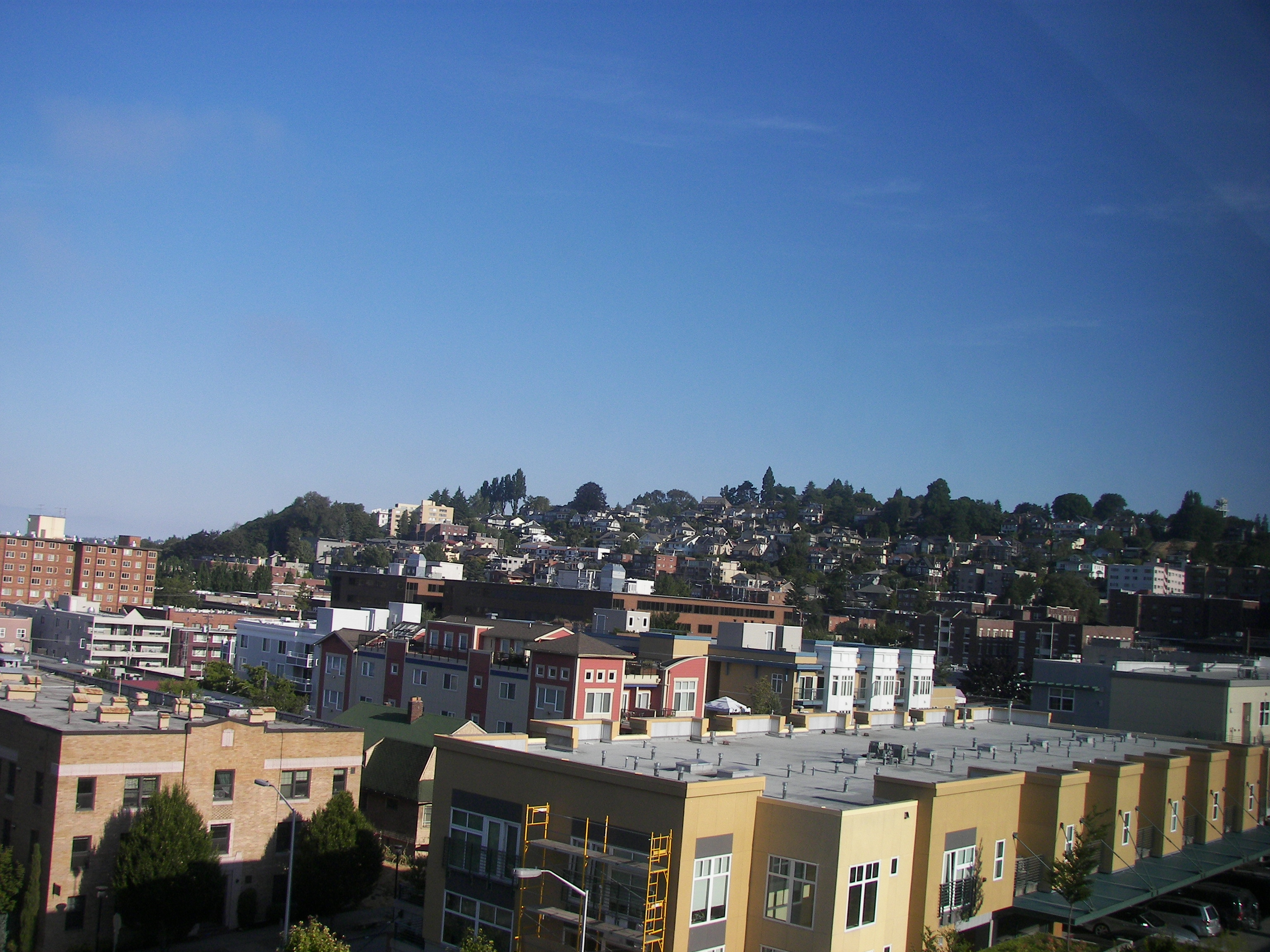 View of Queen Anne Hill in Seattle taken from the Mediterranean Inn at Queen Anne Ave. N and W Republican St.